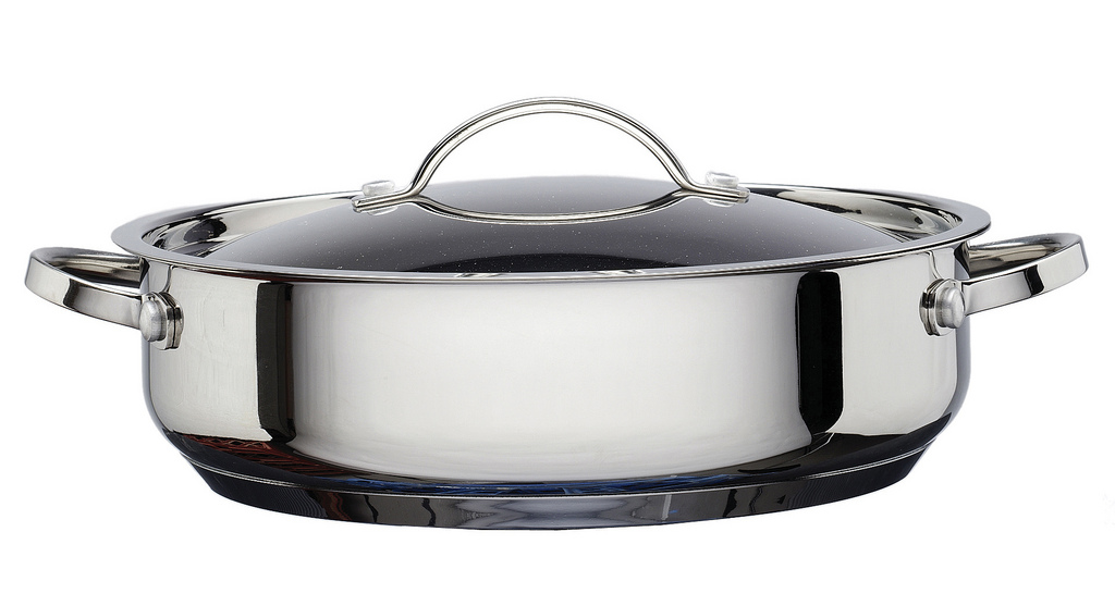 A really popular piece of non stick cookware from Hahn. It's a low casserole, a saute pan and a buffet dish all in one. Beautiful polished 18/10 stainless steel and an induction-compatible encapsulated base. Image attribution to